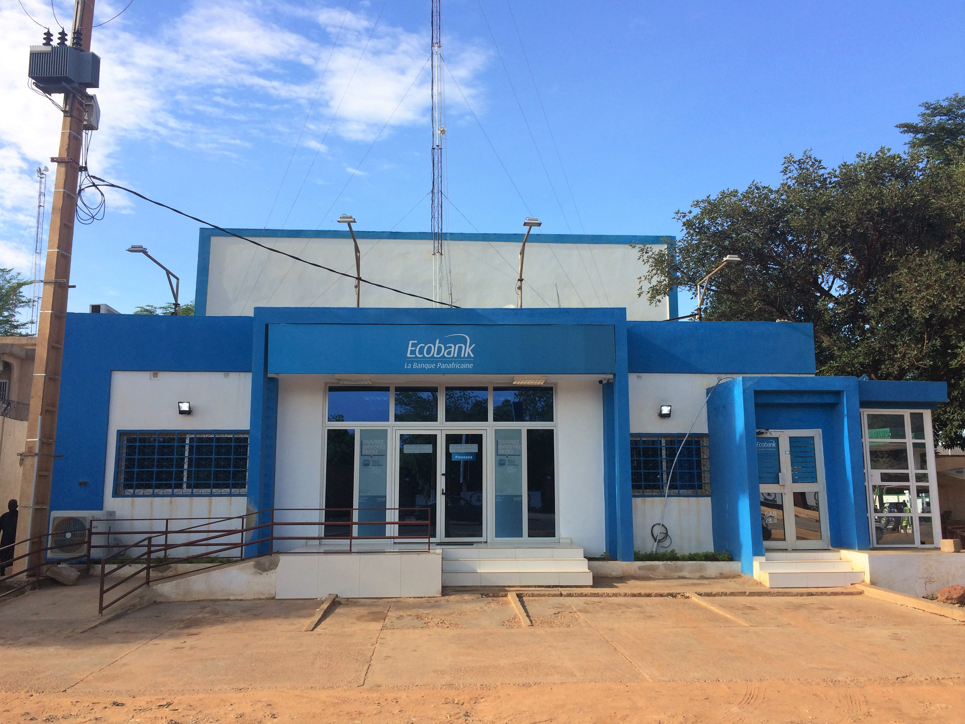 An Ecobank office on the Boulevard de l'Indépendance, Niamey, Niger.